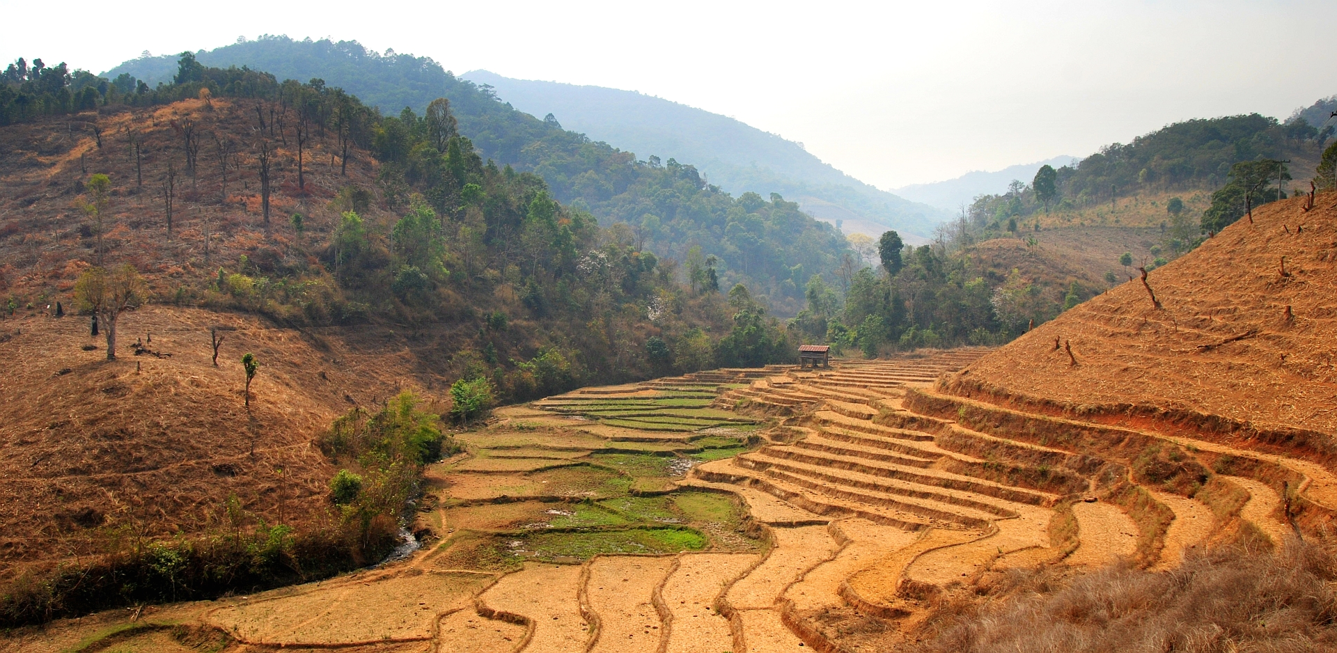 Rice paddies and recently cleared forest land in Amphoe Mae Chaem, along road 1263 between the town of Khun Yuam (Mae Hong Son province) and the town of Mae Chaem (Chiang Mai province), on the west flank of Doi Inthanon (the highest mountain of Thailand) during the hot and dry season of 2010.